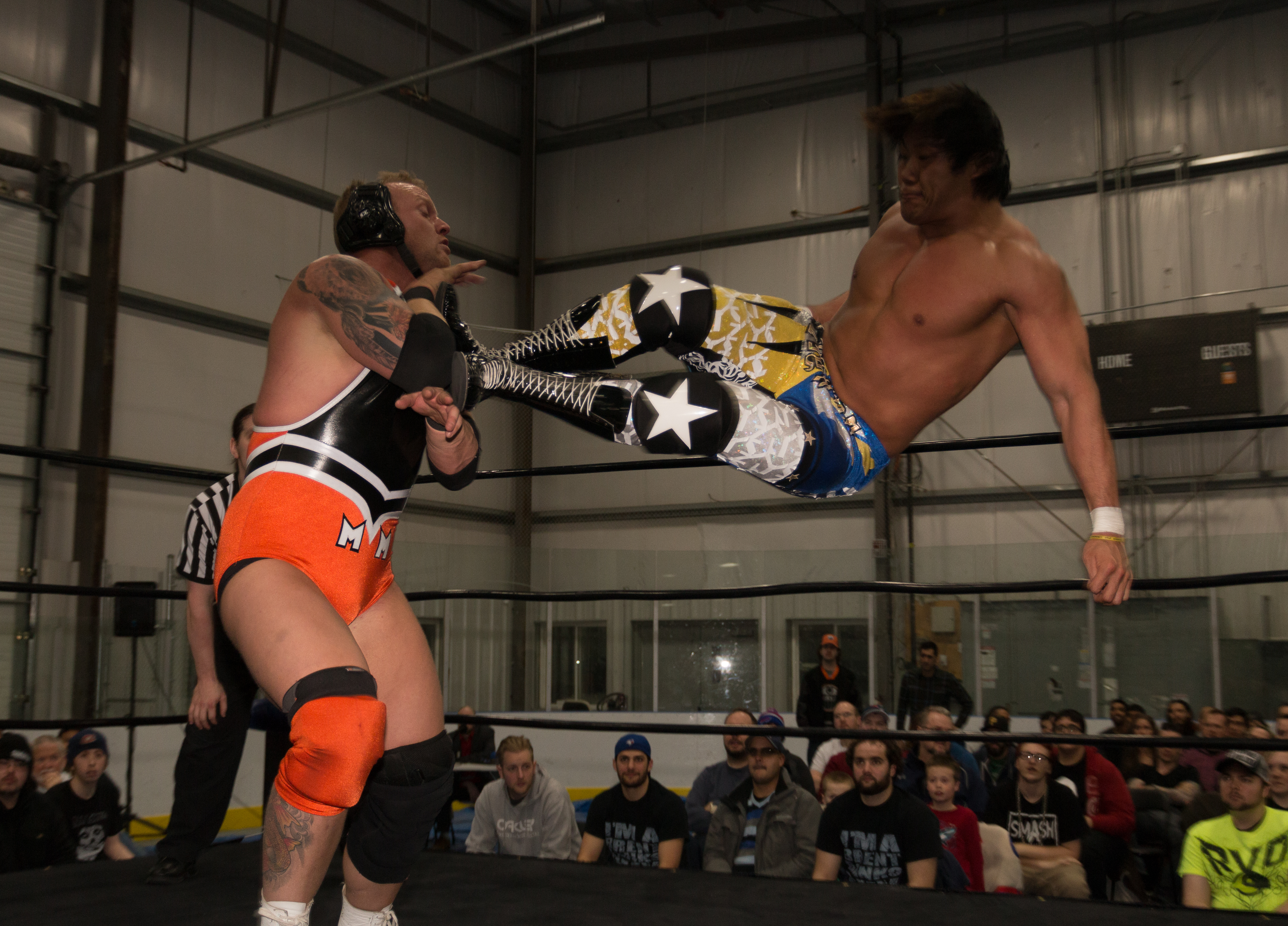 Seiya Sanada (in blue) hitting a dropkick against Josh Alexander at Smash Wrestling's Battle Lines at the Canlan Sportsplex in Mississauga, ON